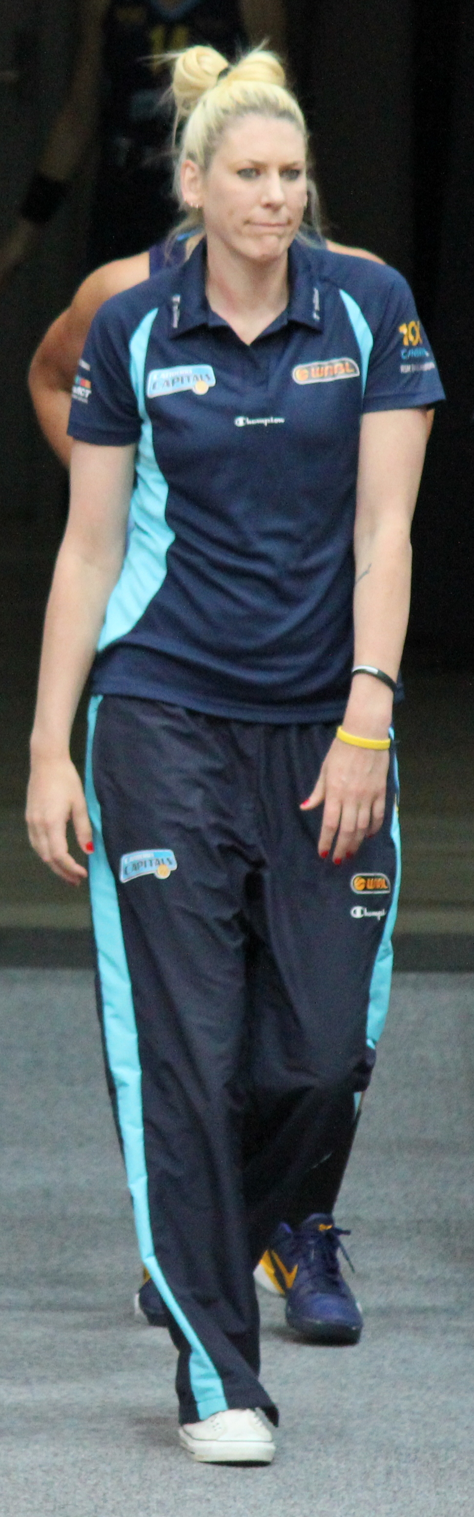 Canberra Capitals versus the Adelaide Lighting at the AIS Arena on 9 November 2012.